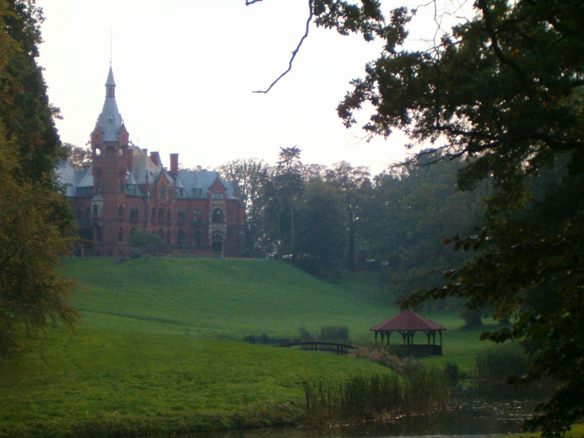 The castle in Wąsowo